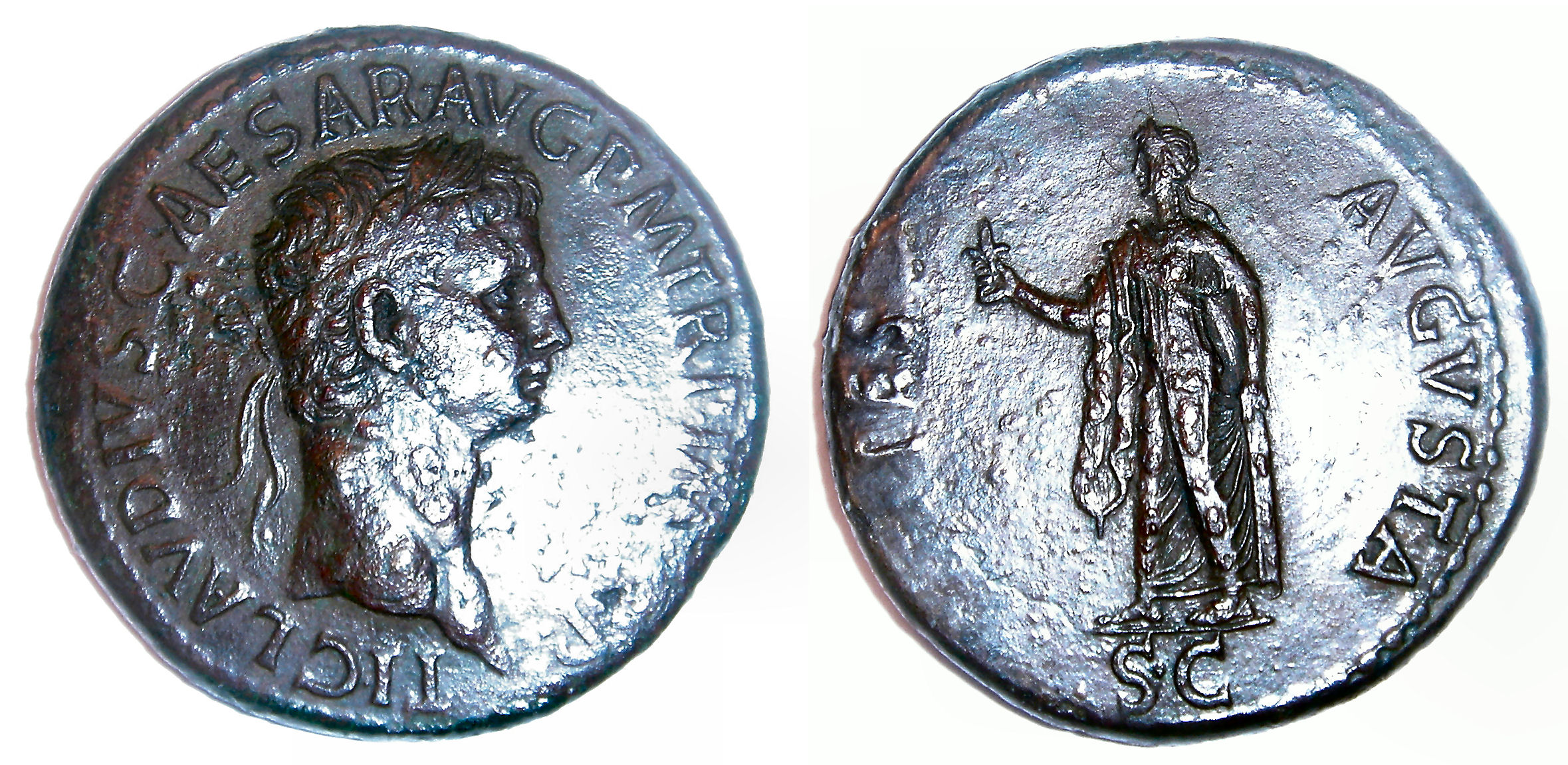 Bronze Sestertius issued by the Roman Emperor Claudius circa 48 AD. The obverse shows a very accurate representation of the emperor in profile with his titles. The reverse is a type that originated with the birth of Claudius' son Britannicus. The goddess Hope is represented, and the caption "Spes Augusta" translates to the "Hope of the Emperor." This commemorates the birth of the heir as a hopeful event for the royal family. This motif would be used by many emperors after Claudius. Summary This picture is self-made. Two pictures of a coin in my possession were pasted together.